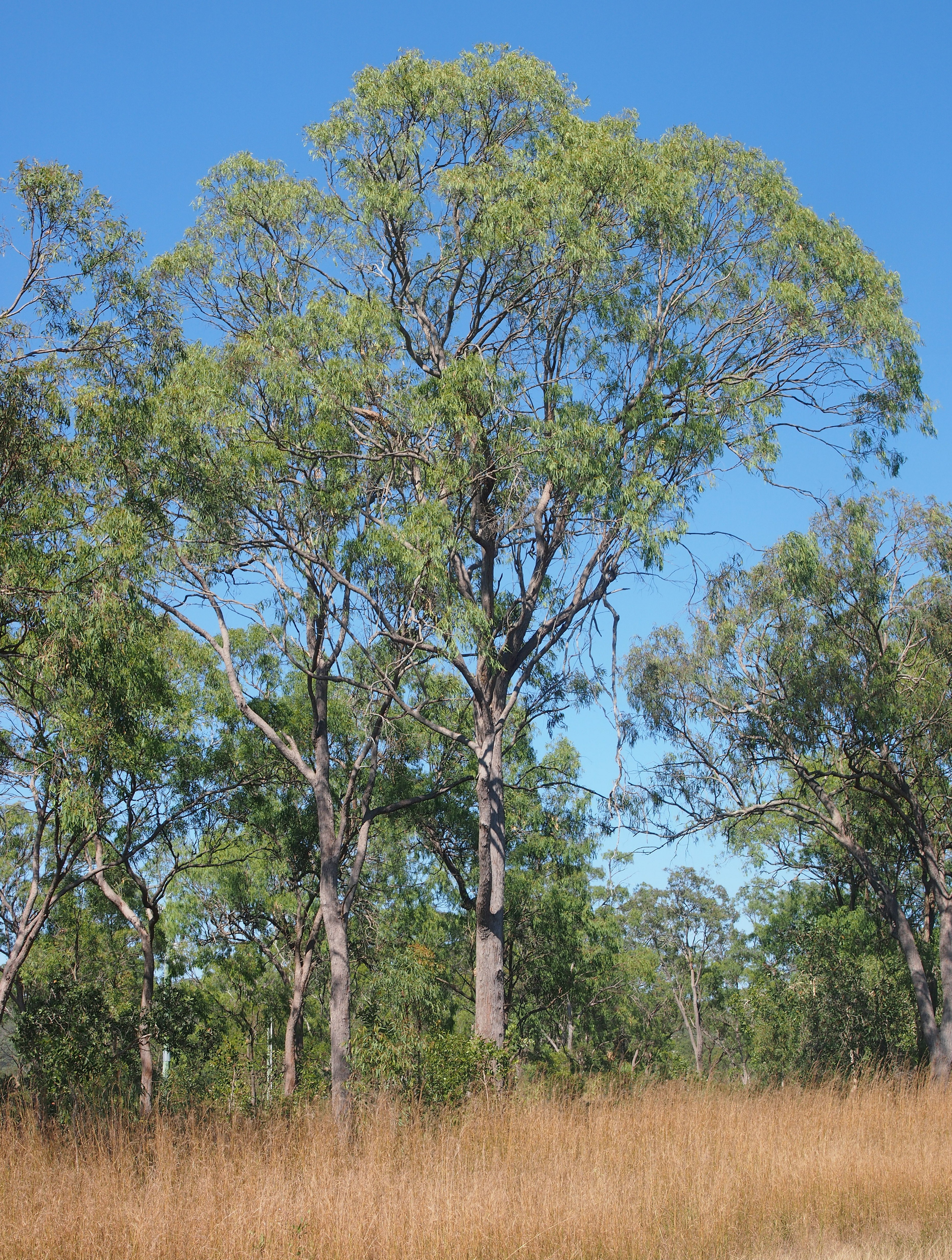 Eucalyptus exserta trees